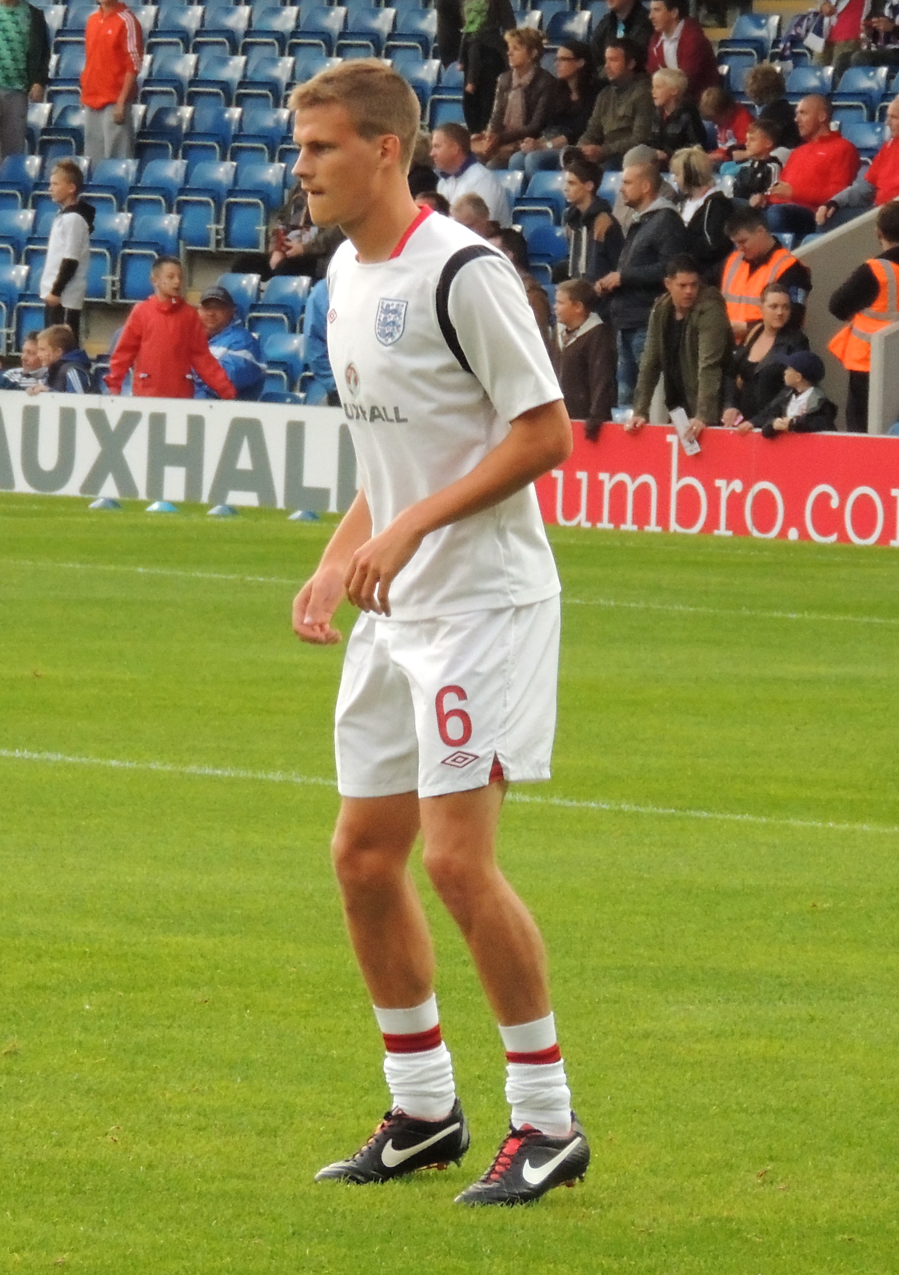 England U21 vs Norway 10-09-12 011